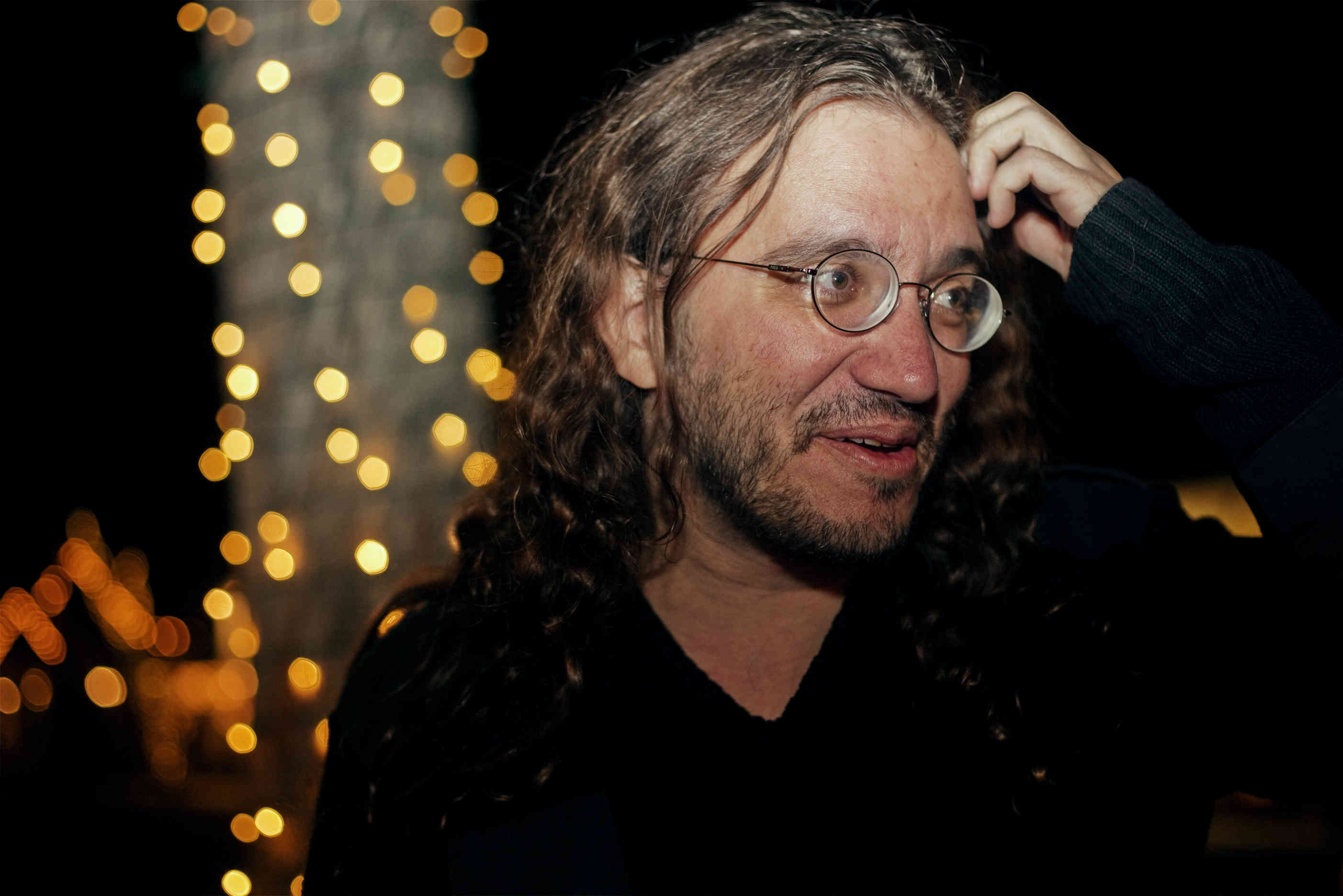 Dr. Ben Goertzel after the 2009 Humantiy+ Summit in Irvine California